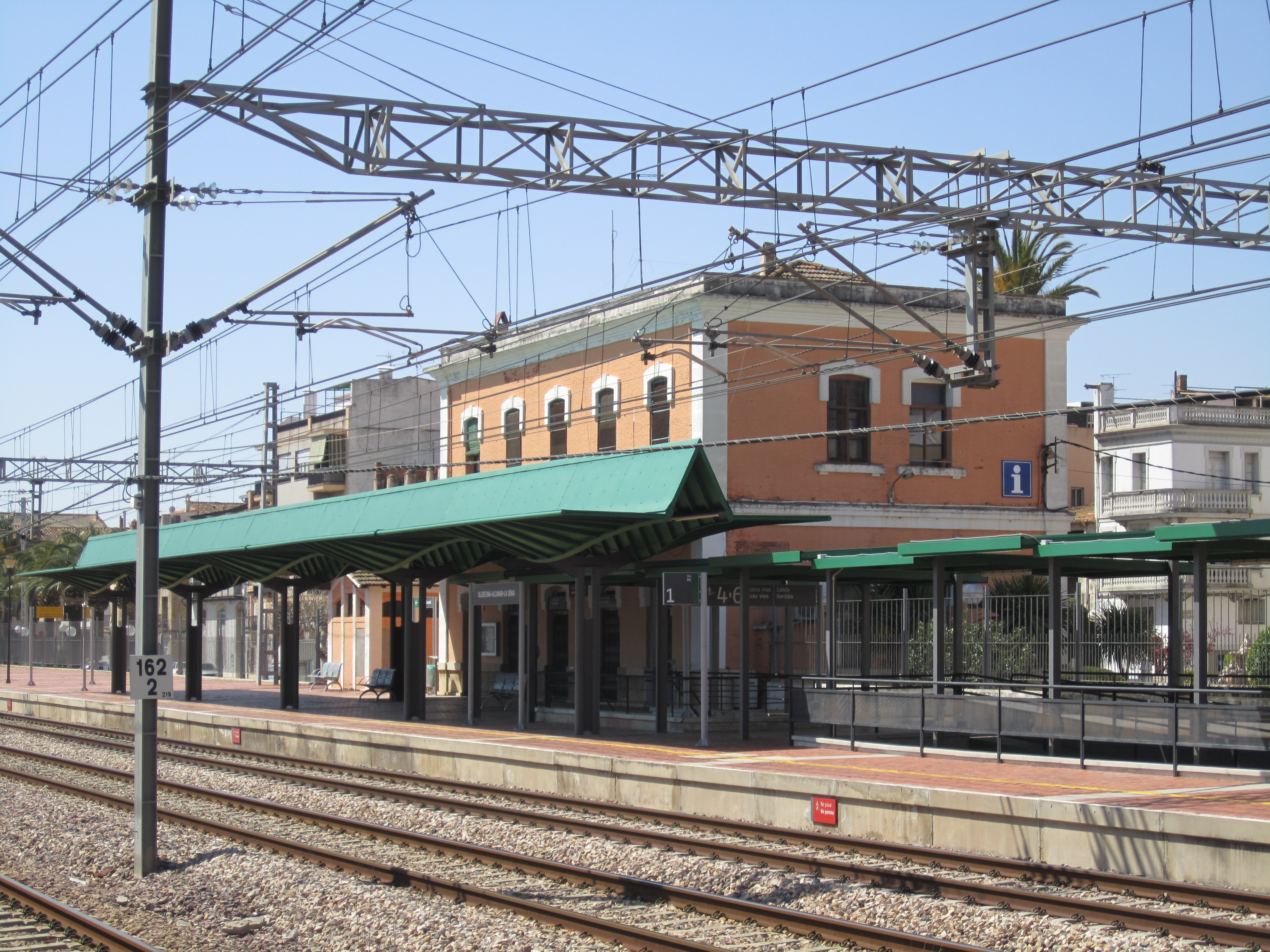 Trian station of Ulldecona - Main Building.